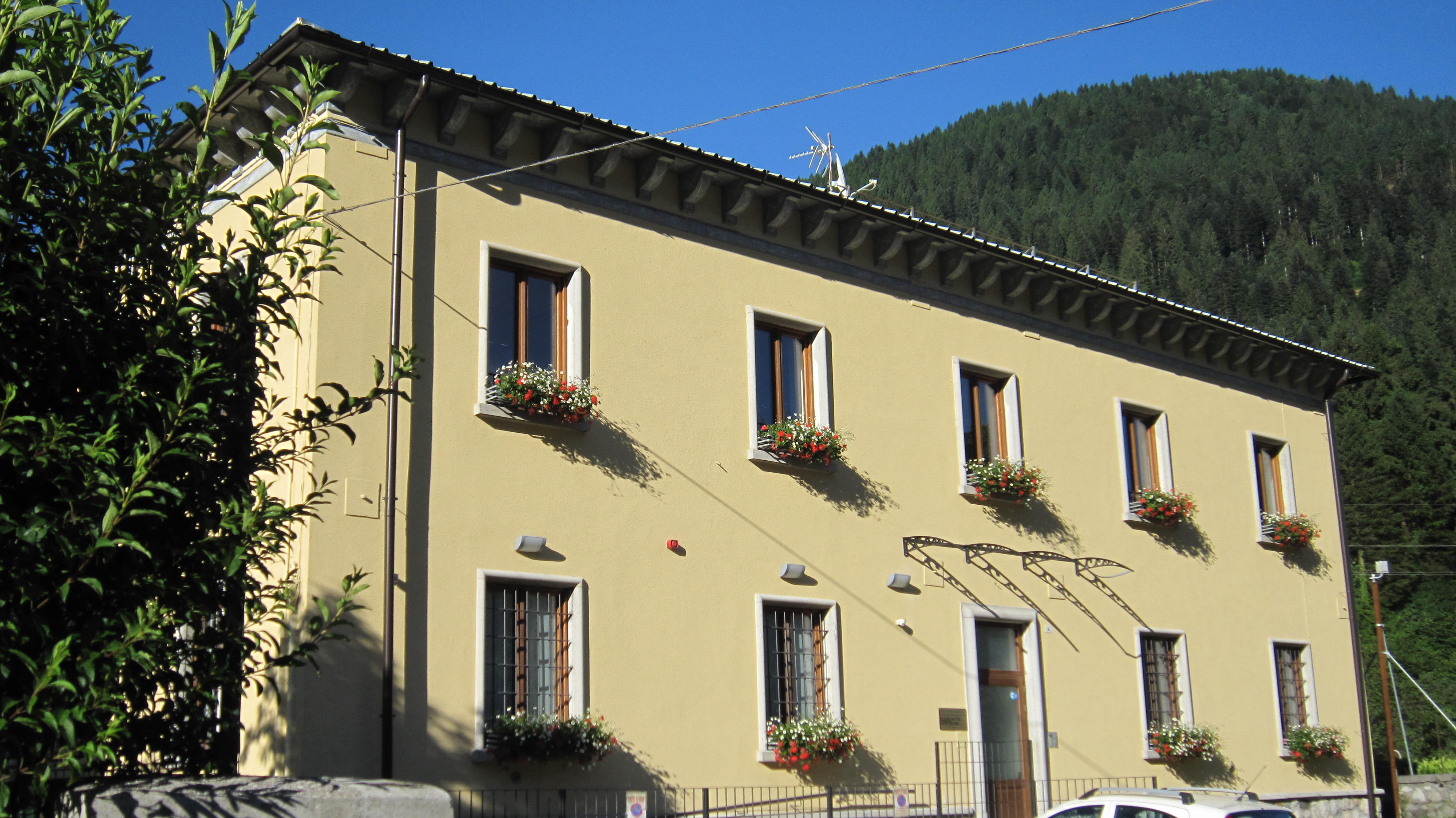 sede della radio